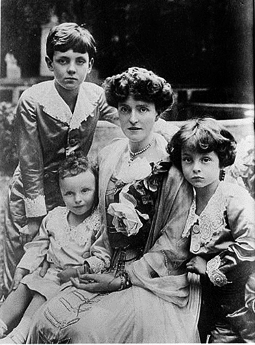 Duchess Marie Gabrielle in Bavaria, Princess Rupprecht of Bavaria, with her three sons, Luitpold, Albrecht, and Rudolf.